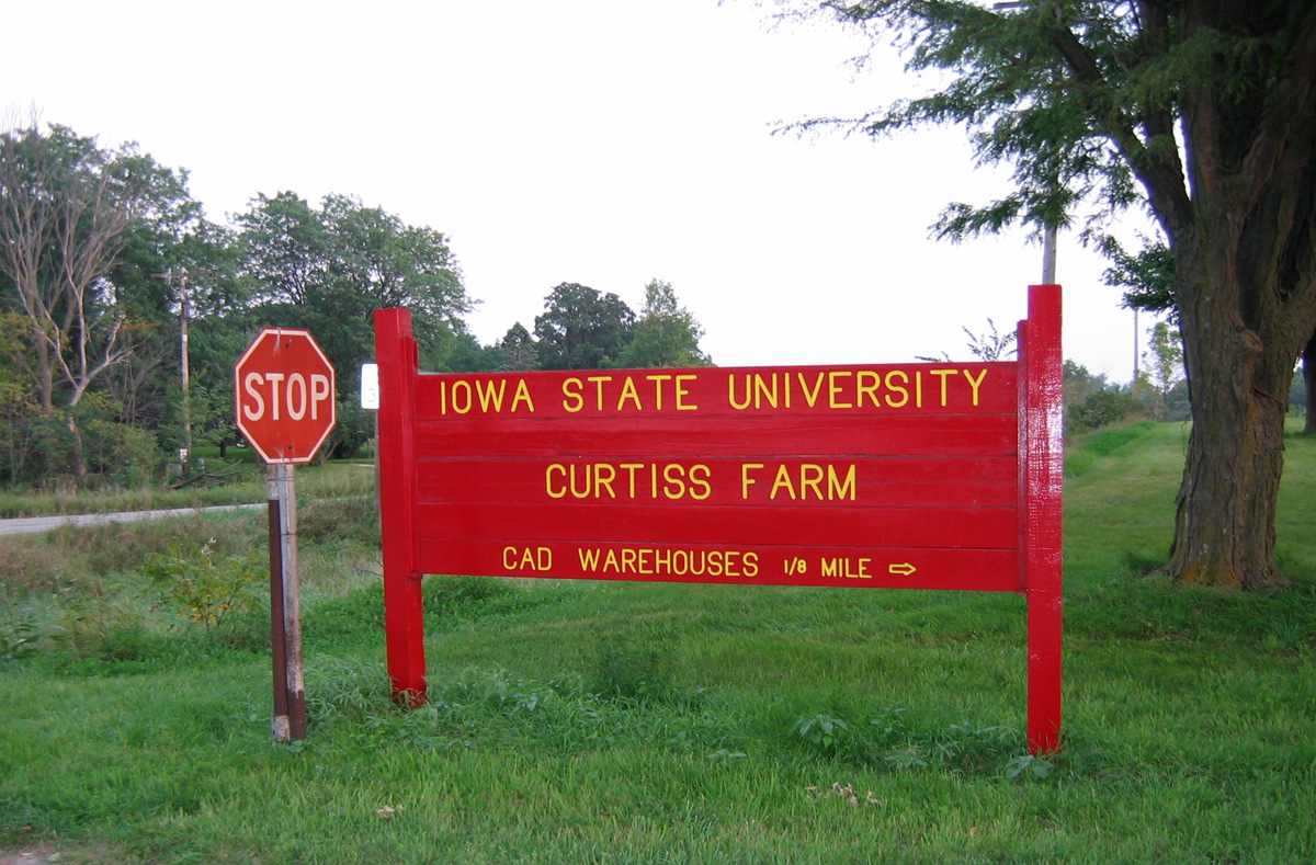 Curtiss Farm